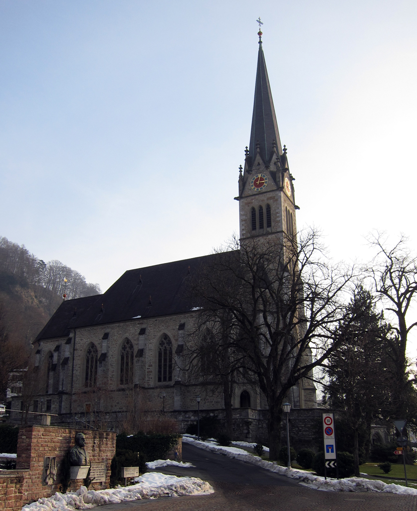 Vaduz Cathedral, or Cathedral of St. Florin is a neo-Gothic church in Vaduz, Liechtenstein, and the center of the Roman Catholic Archdiocese of Vaduz.